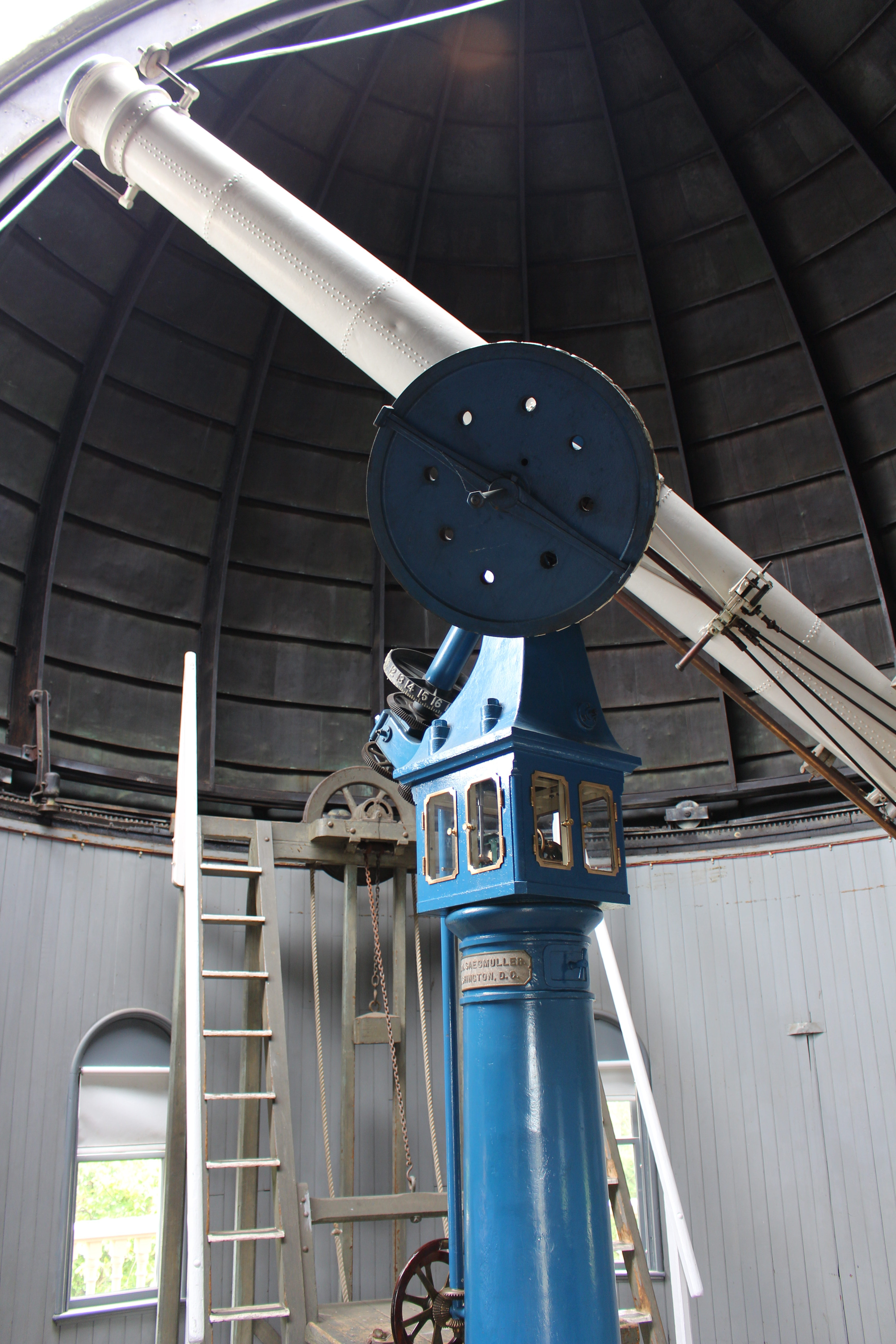 The equatorial refractor at Ladd Observatory.